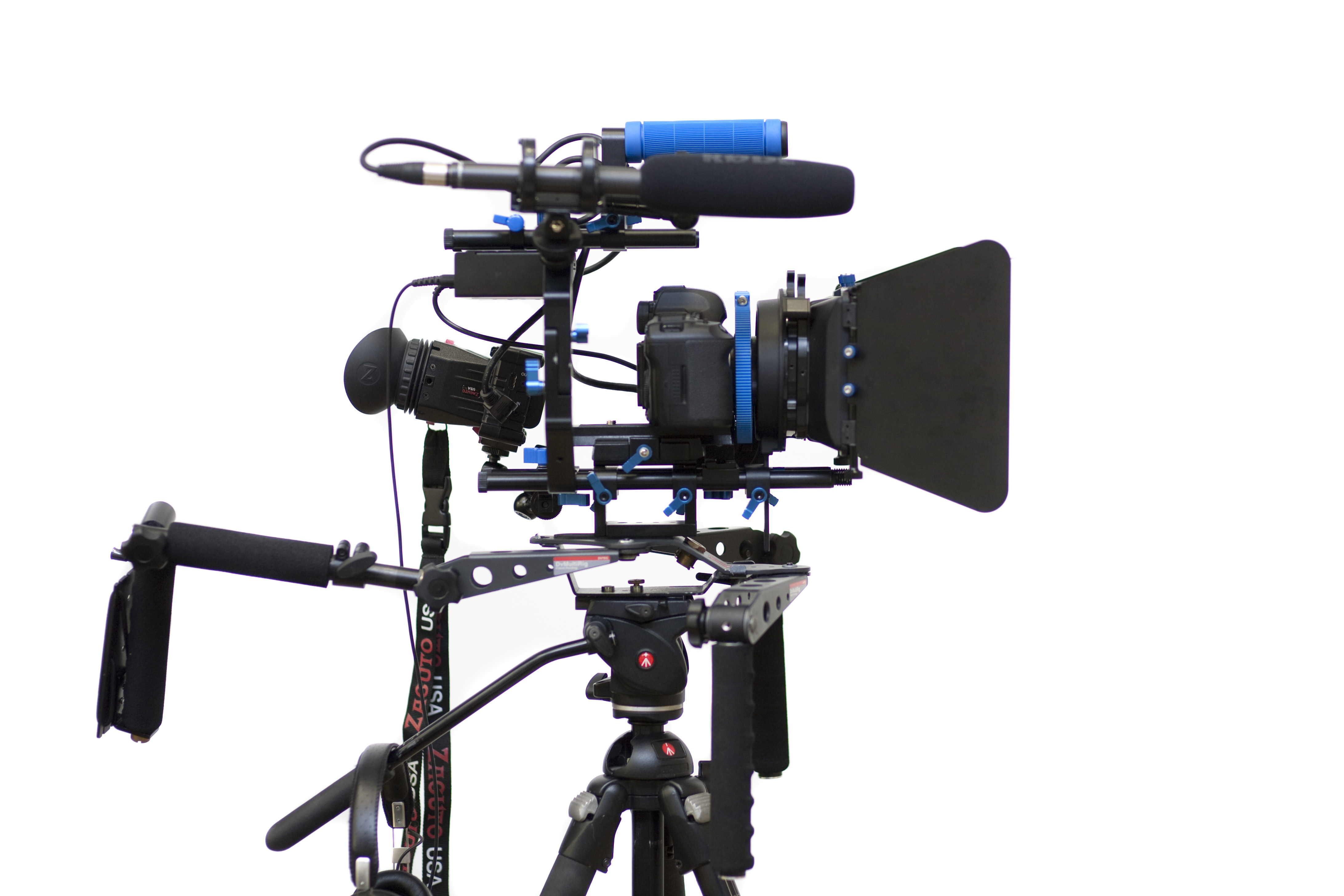 The last few weeks I've had a lot of video assignments, so I upgraded my setup a little bit. A lot of people have been asking me what equipment I use, here's a list of the things I use most of the times.